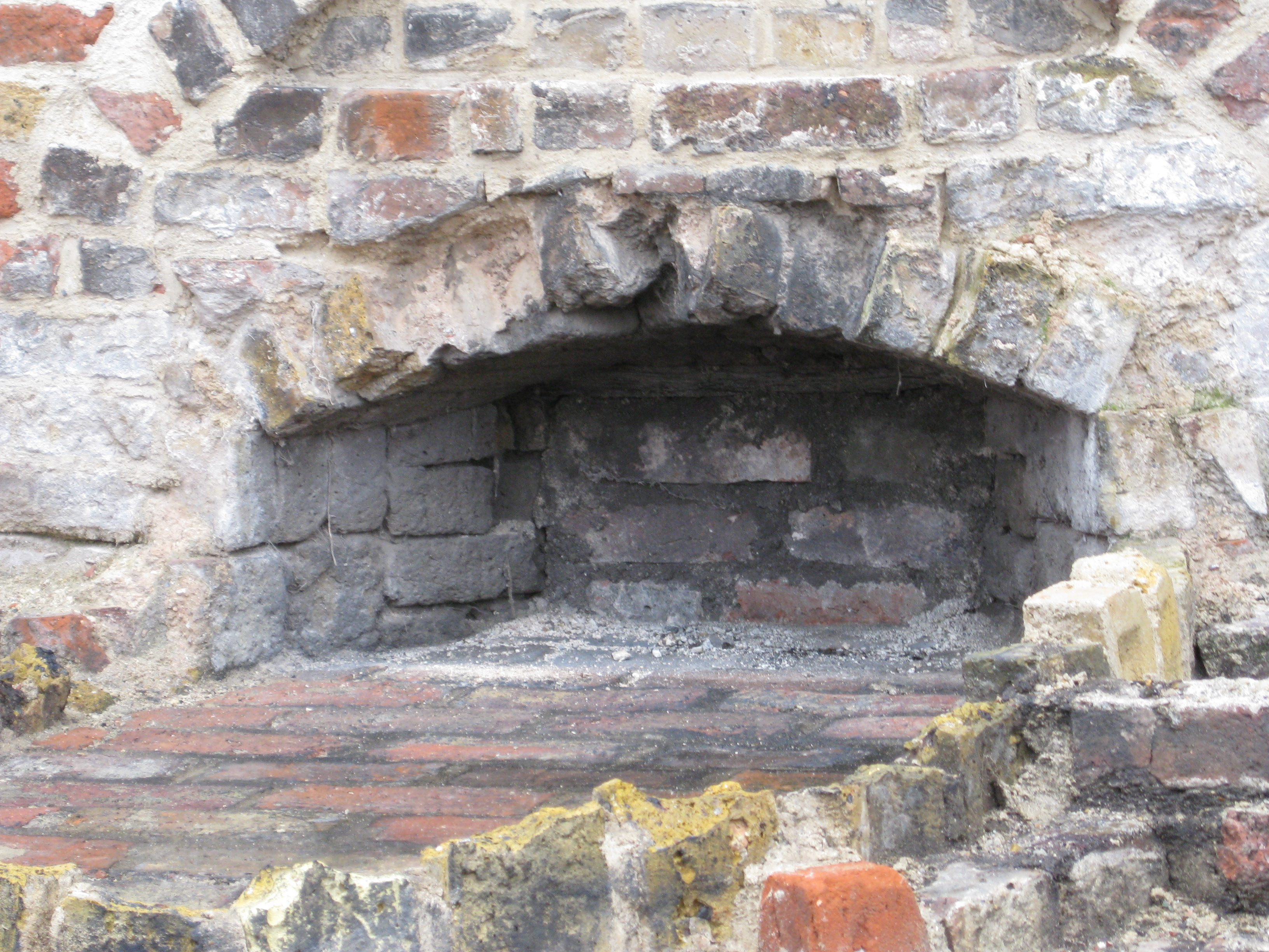 Restore bread oven